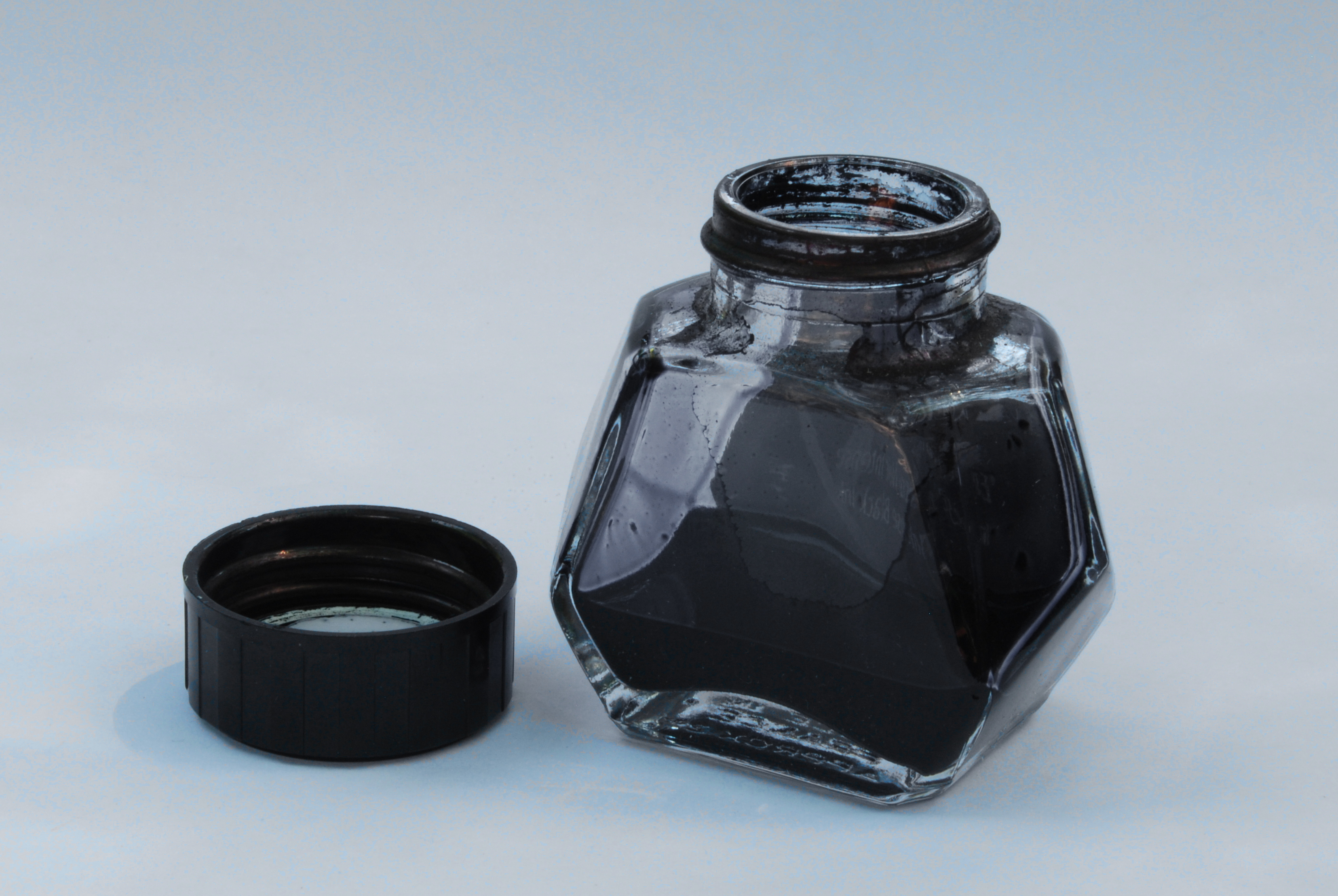 Black Waterman ink bottle.